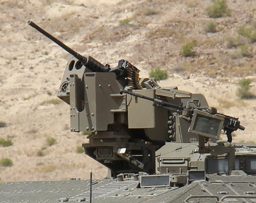 Catlanit Samson Remote Controlled Weapon Station armed with M2 Browning 0.5 heavy machine gun, mounted on a Namer APC